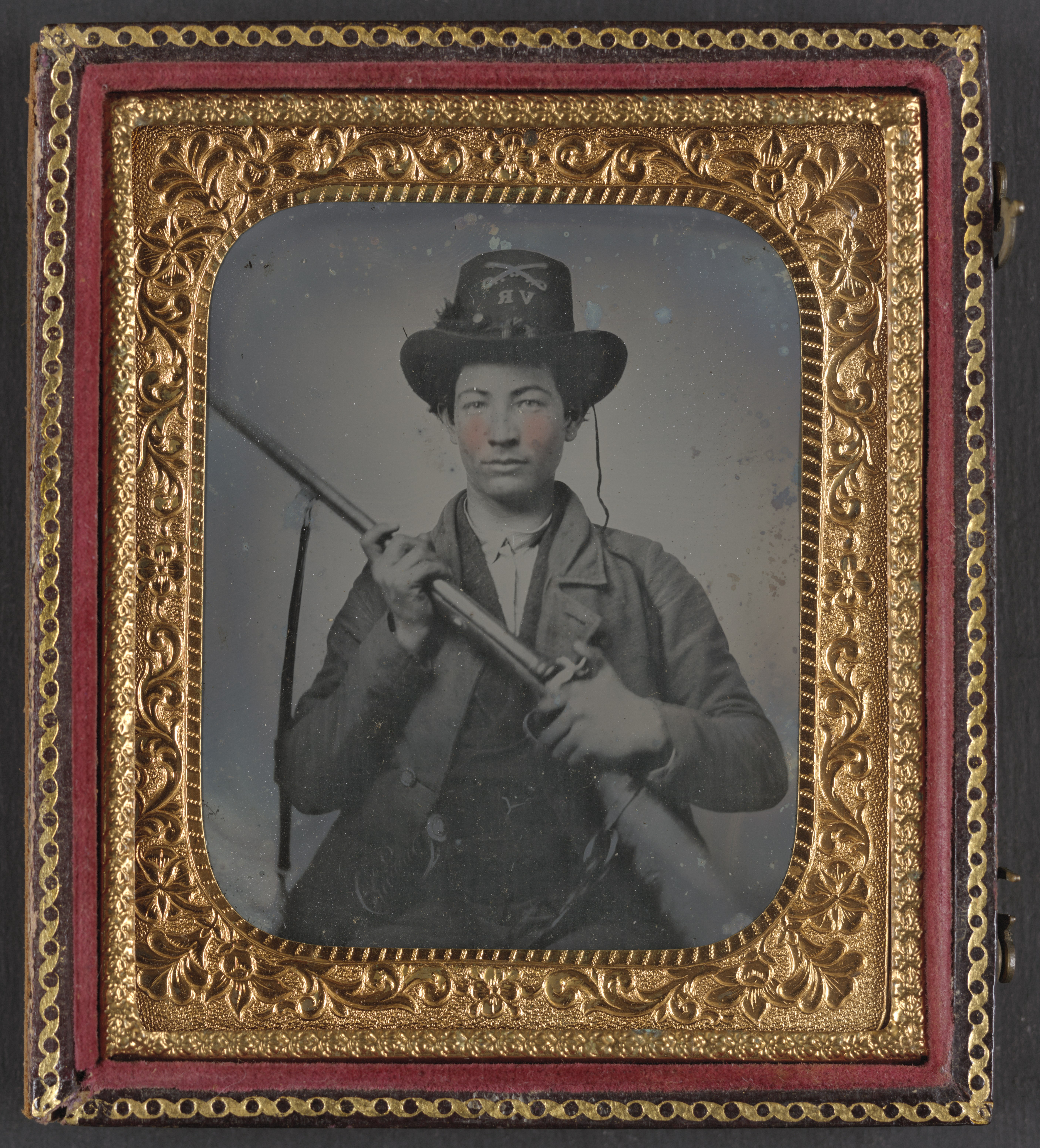 Title: Unidentified cavalry soldier in Confederate uniform and Valley Rangers, 10th Virginia Infantry Regiment hat, with double barrel shotgun Abstract/medium: 1 photograph : sixth-plate ambrotype, hand-colored ; 9.5 x 8.3 cm (case)